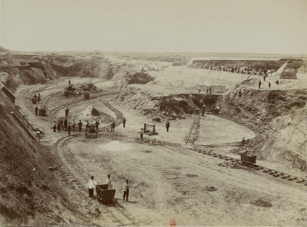 Industrial Revolution in Kryvyi Rih